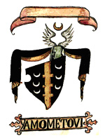 Image of Jamomet(-ović) noble family coat of arms.